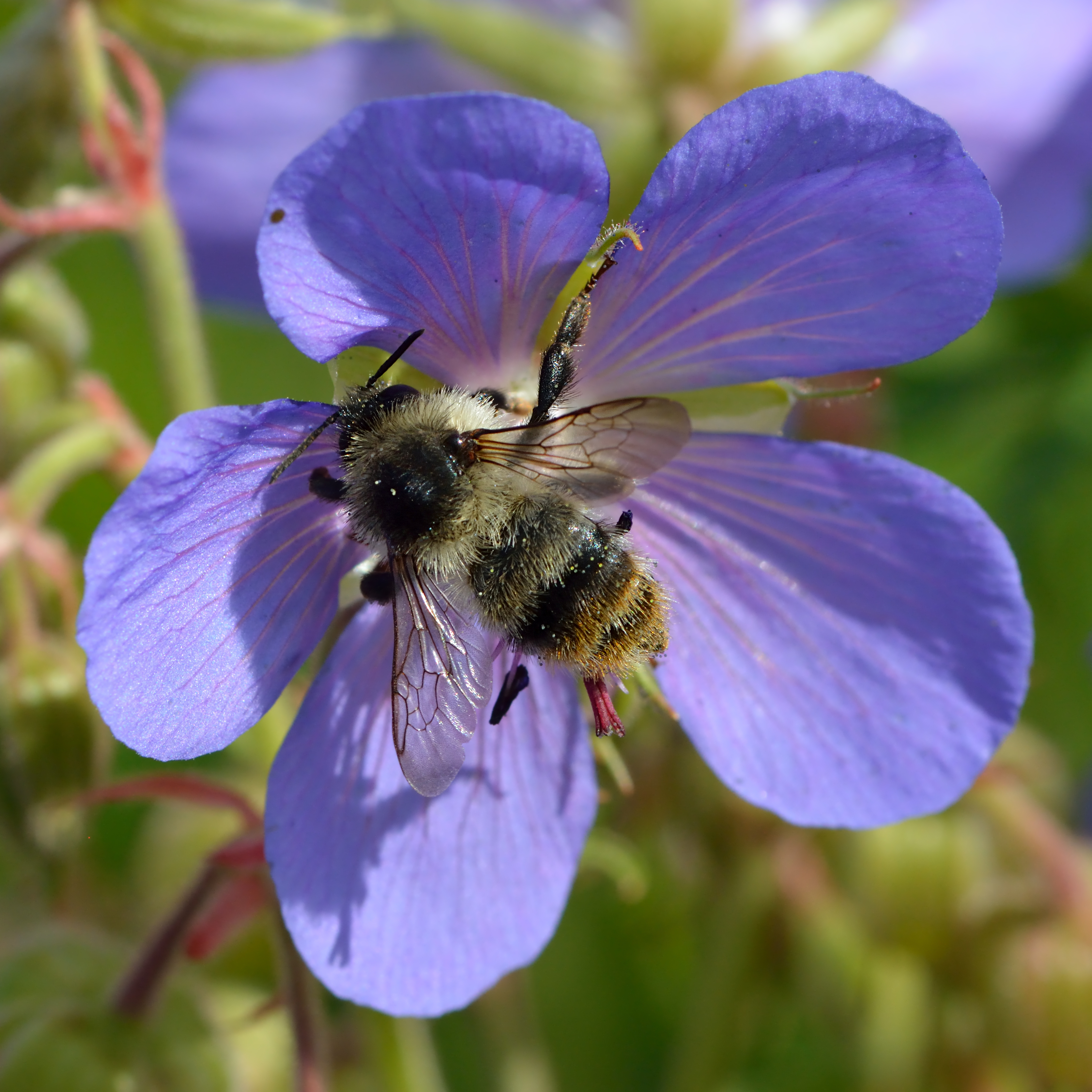 Shrill carder bee (Bombus sylvarum) on the meadow geranium (Geranium pratense). Keila, Northwestern Estonia.